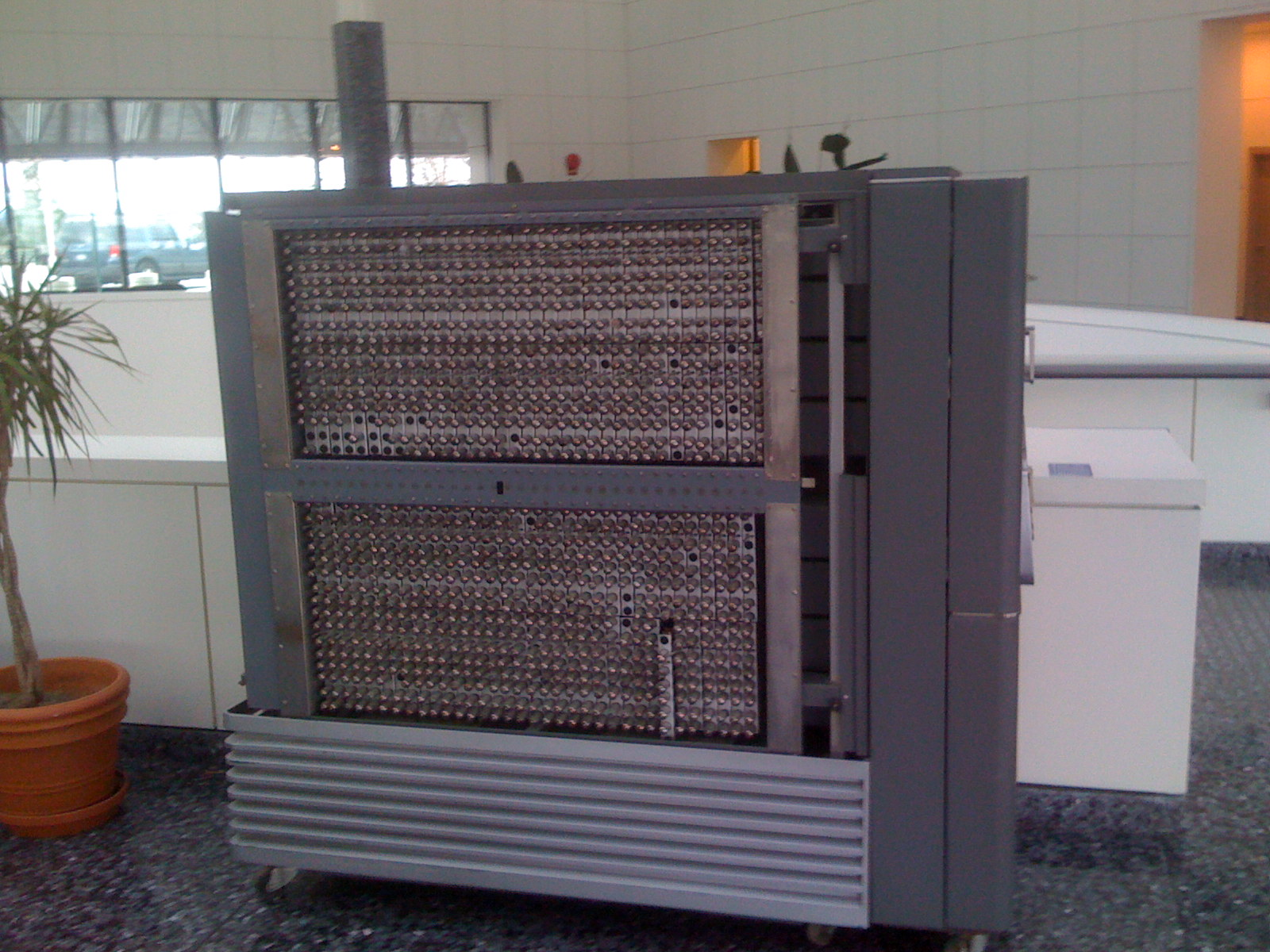 IBM 701 computer frame, side view, showing many vacuum tube modules, circa 1952.